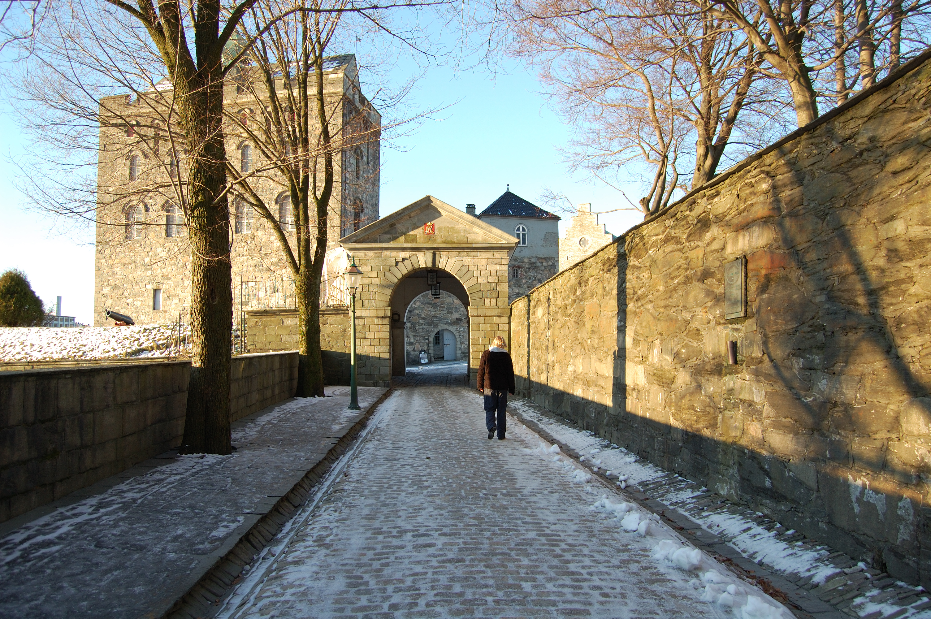 Bergenhus Fortress in Bergen, Norway.